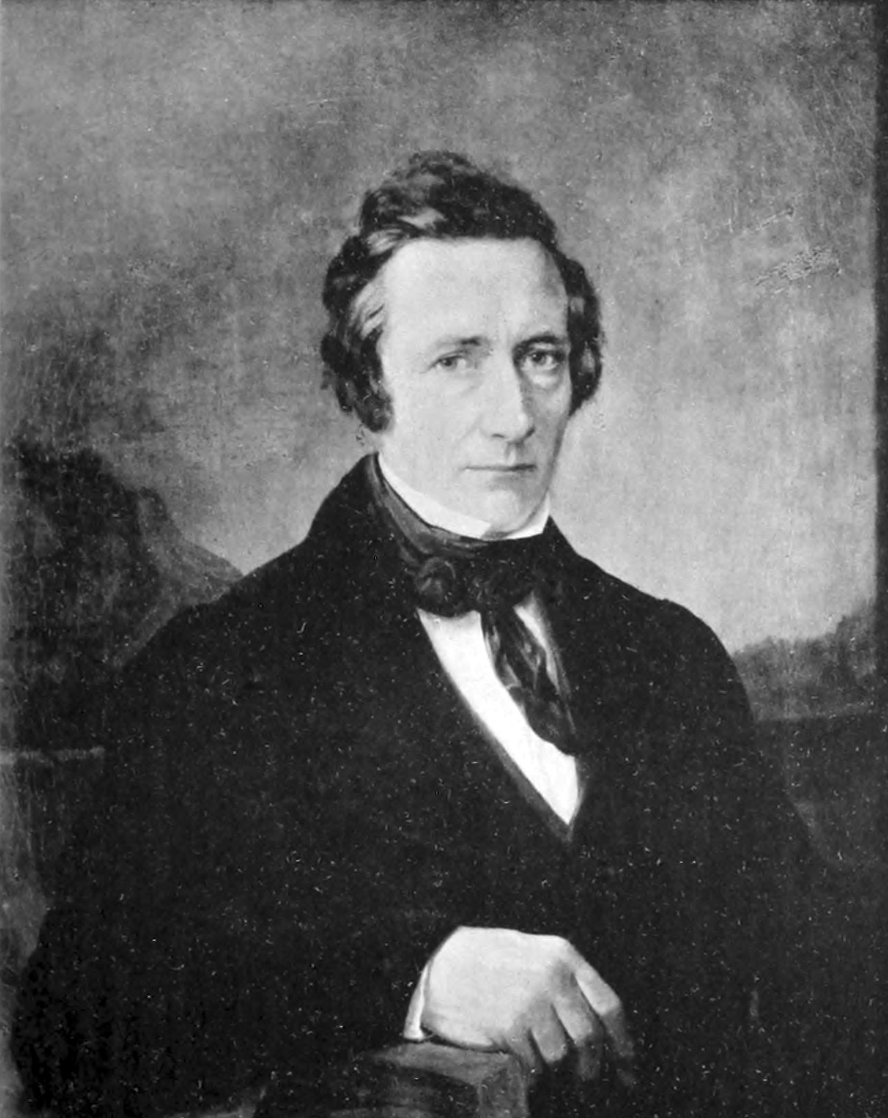 Johan Olof Lagberg (1789-1856)